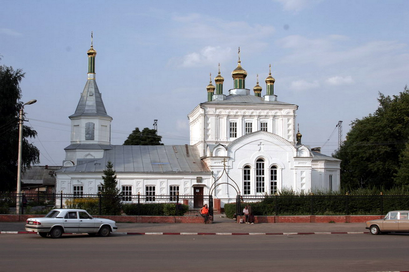 Church of sacred prince Alexander Nevsky (Rtishchevo)